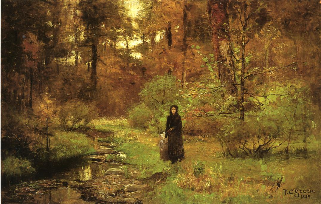 Brook in Woods